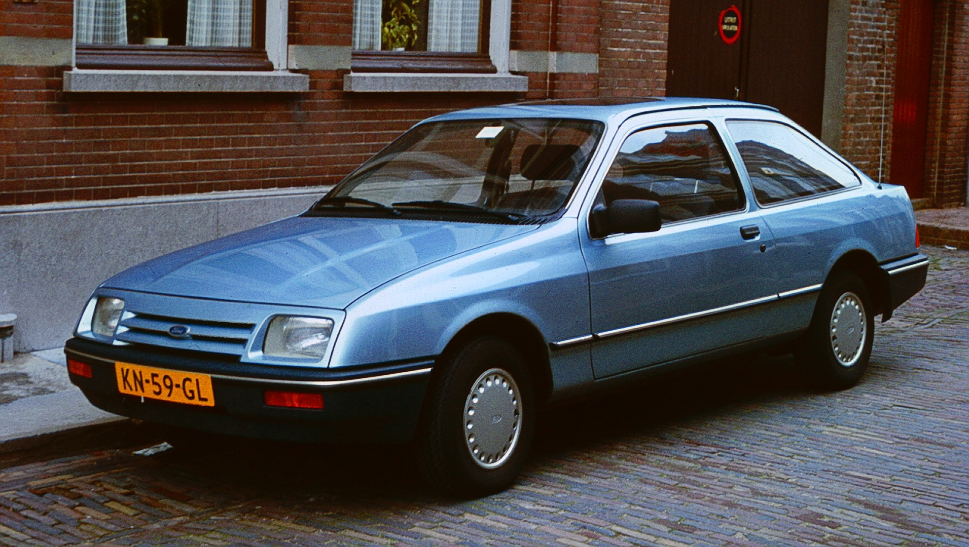 Ford Sierra 3 door hatch back in Utrecht looking very clean and blue